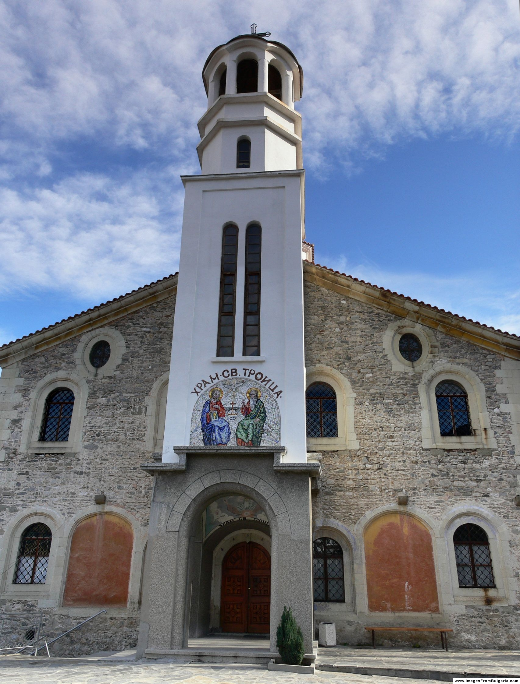 Church of the Holy Trinity (built 1857-1862), Asenovgrad, Bulgaria